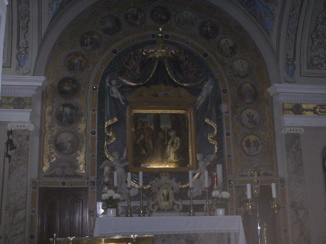 St. Mary depiction in the main altar, Strunjan church, Slovenia.